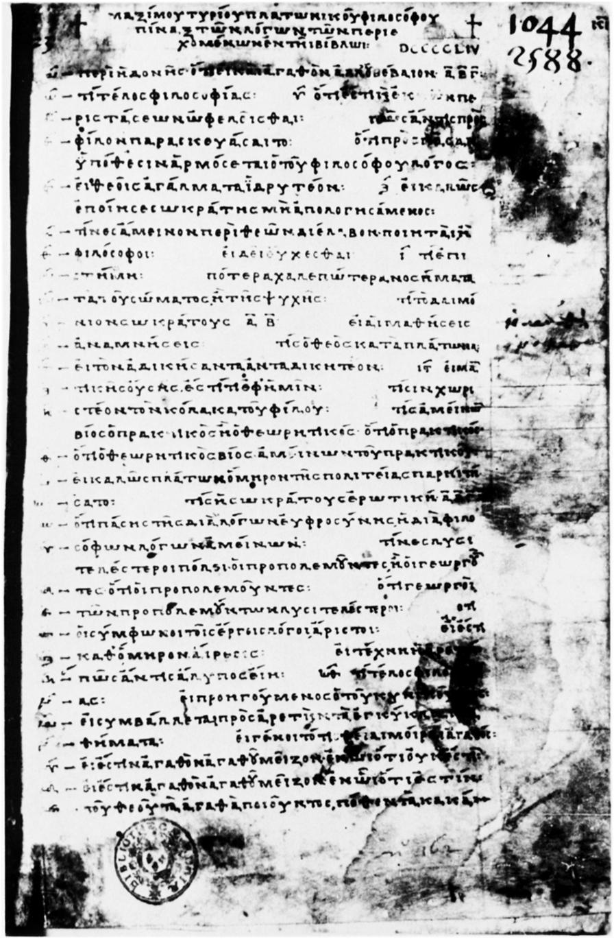 9th century manuscript Parisinus graecus 1962, fol. 1r with text by Maximus of Tyre.